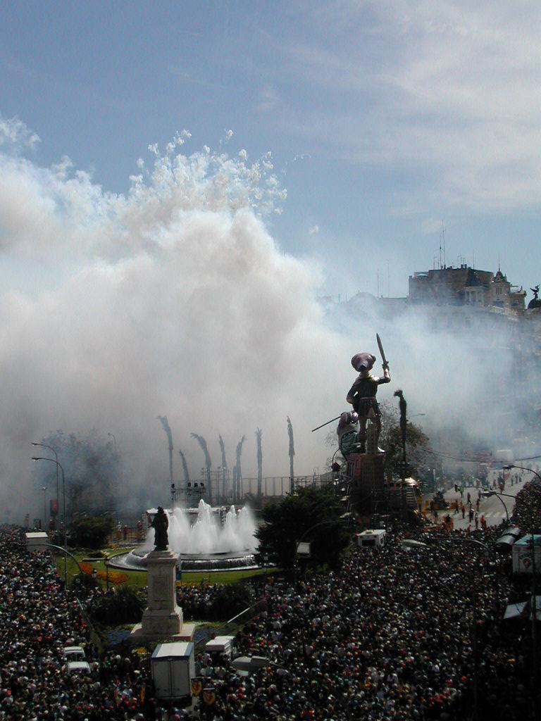 Smoke rises as crowds watch the Mascleta, March 2004, Valencia, Spain.